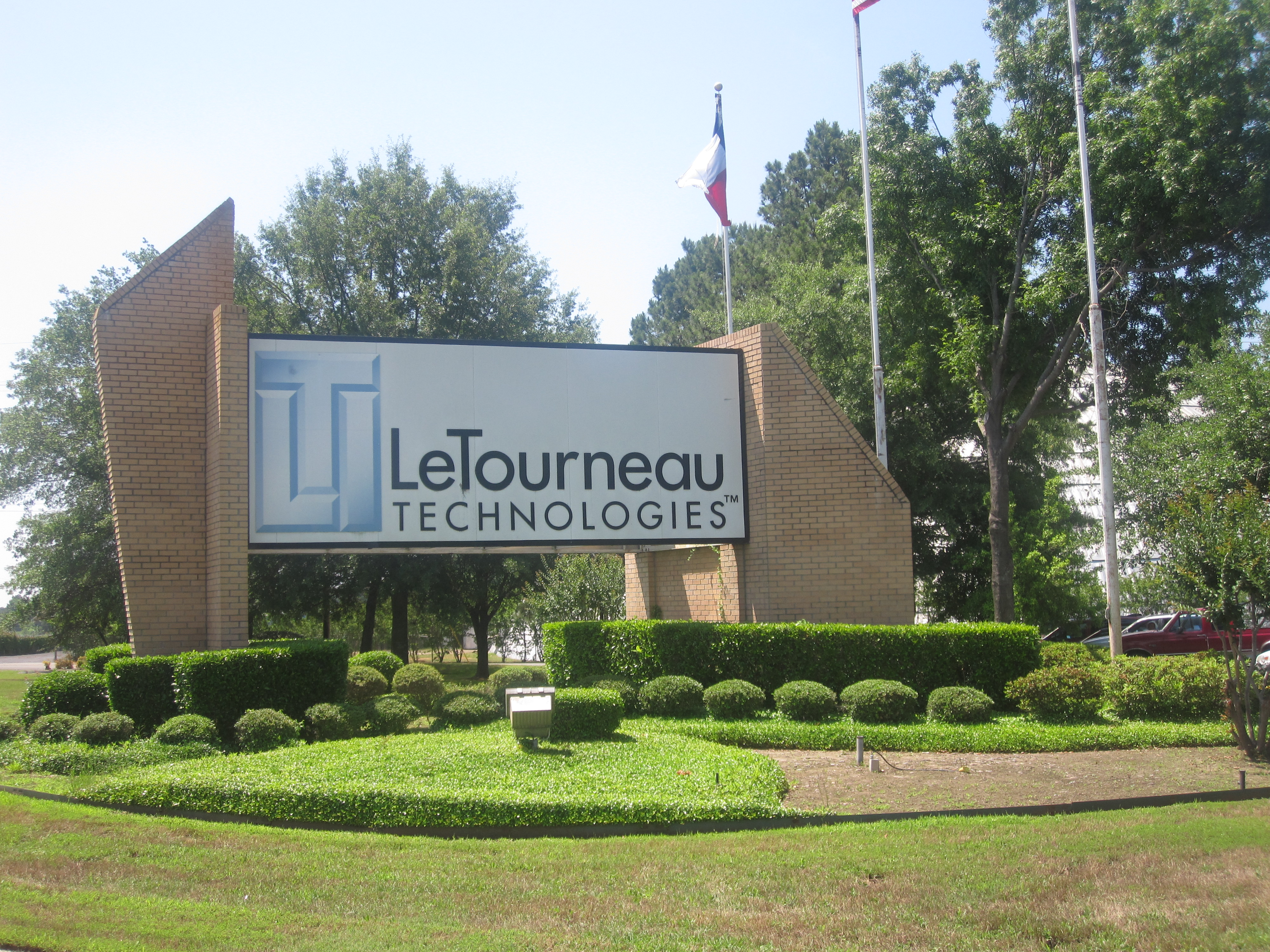 I took photo in Longview, TX, with Canon camera.